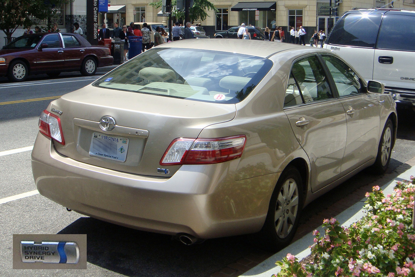 Rear view of a Toyota Camry Hybrid with the HSD hybrid badge inserted in the photo. Washington, D.C.